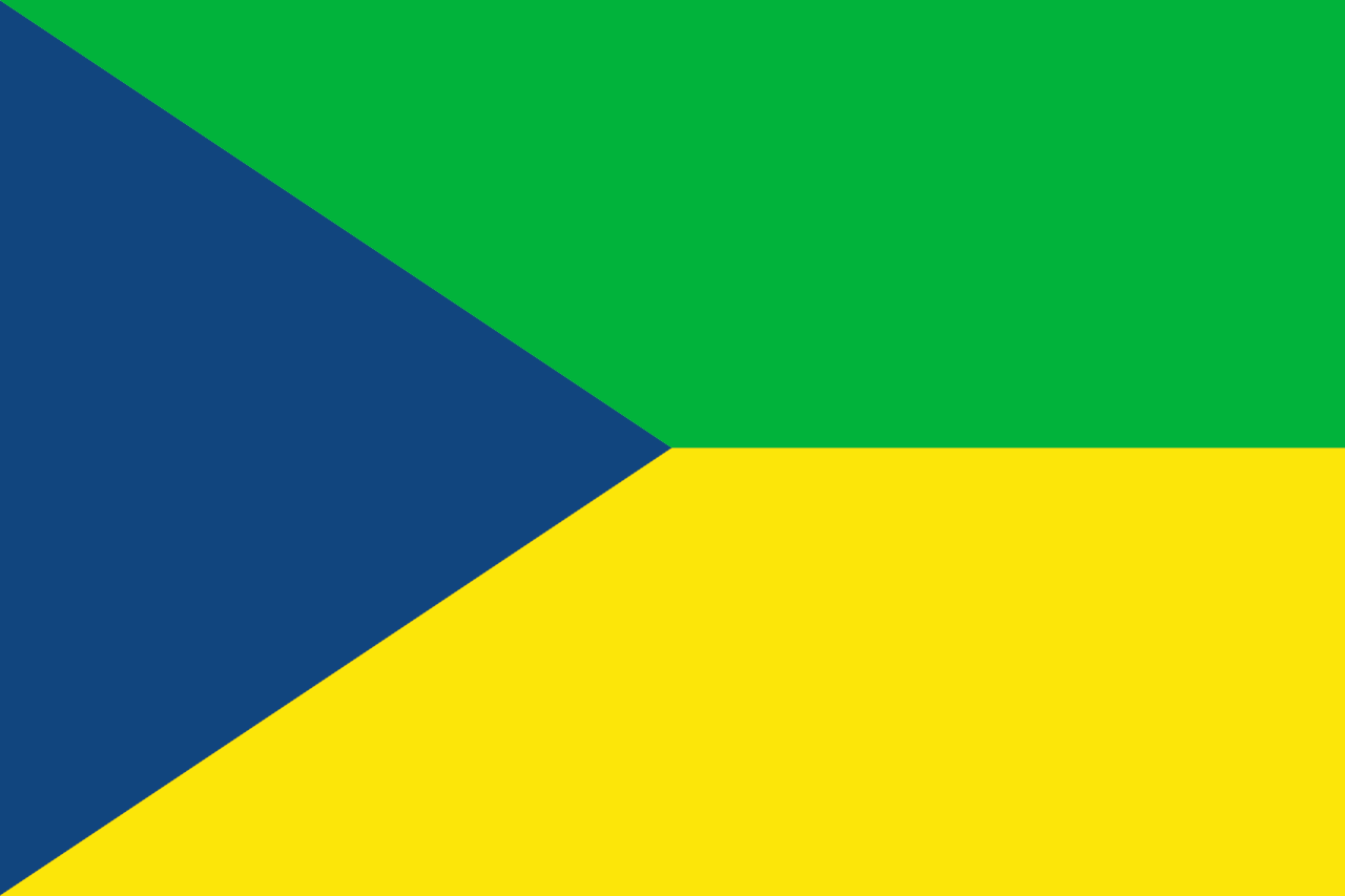 Flag of the Movement for the Salvation of Azawad.